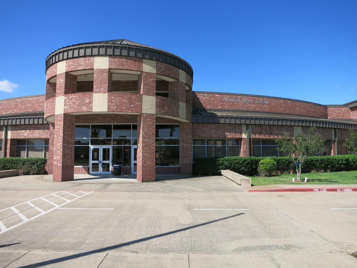 Photo shows Sartartia Middle School, in the New Territory neighborhood, at 8125 Homeward Way, Sugar Land, TX 77479. It is in Fort Bend Independent School District. View is to the SW.